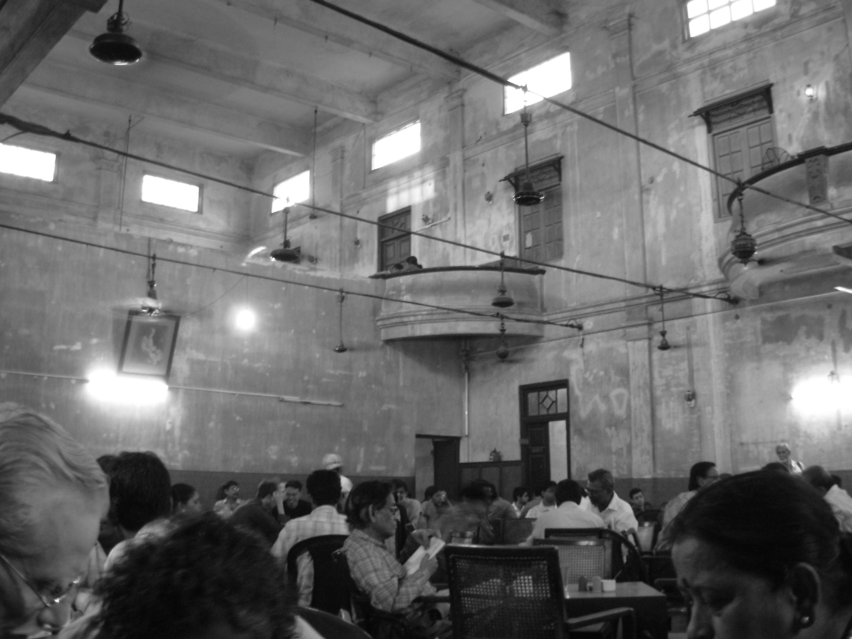 Interior of Coffee House, Kolkata, India.